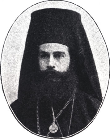 Portrait of Greek Orthodox Metropolitan bishop of Moschonisa, Asia Minor, Ambrosios (Pleianthidis). Last bishop of Cunda island.